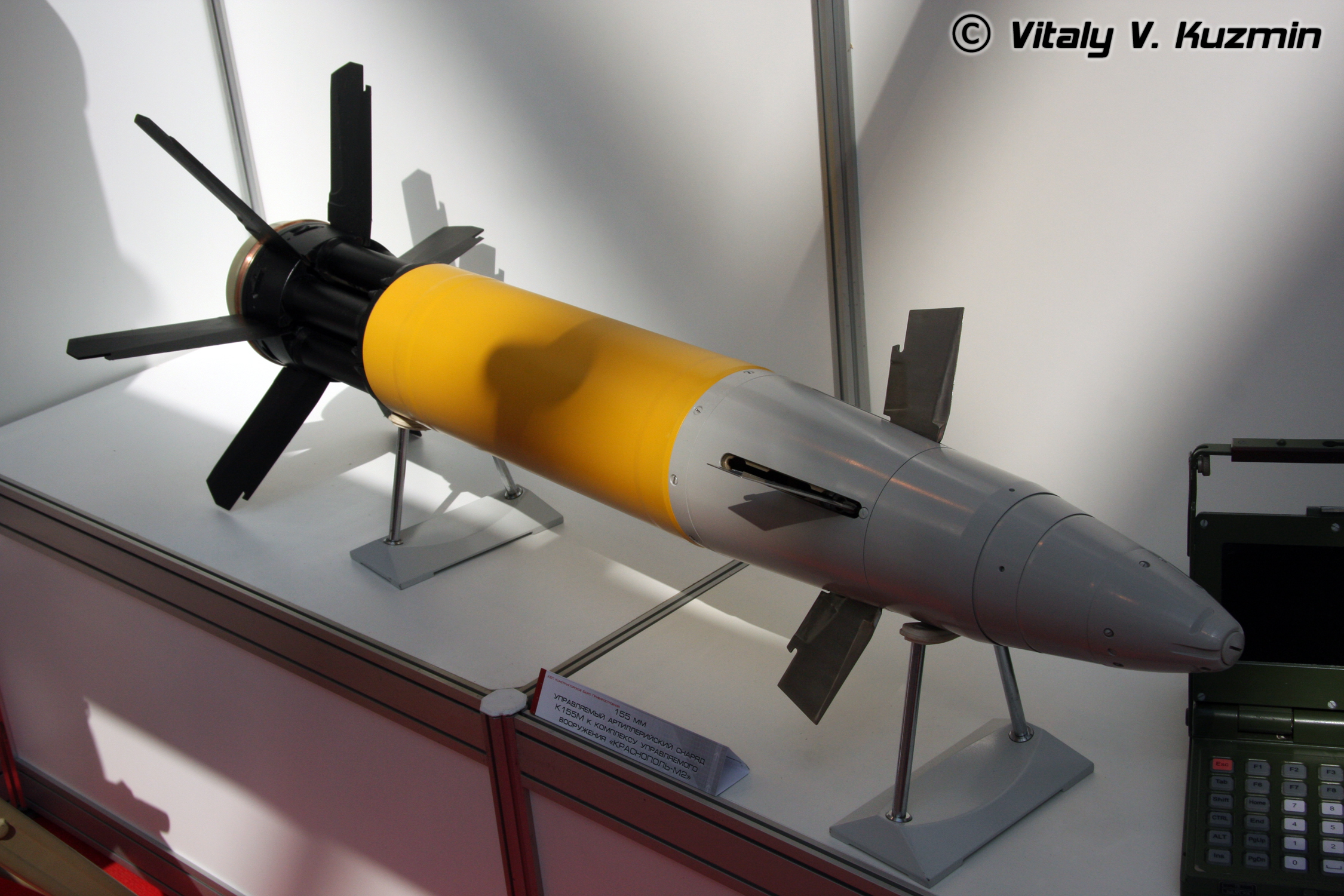 155mm Krasnopol-M2 - IDELF-2008